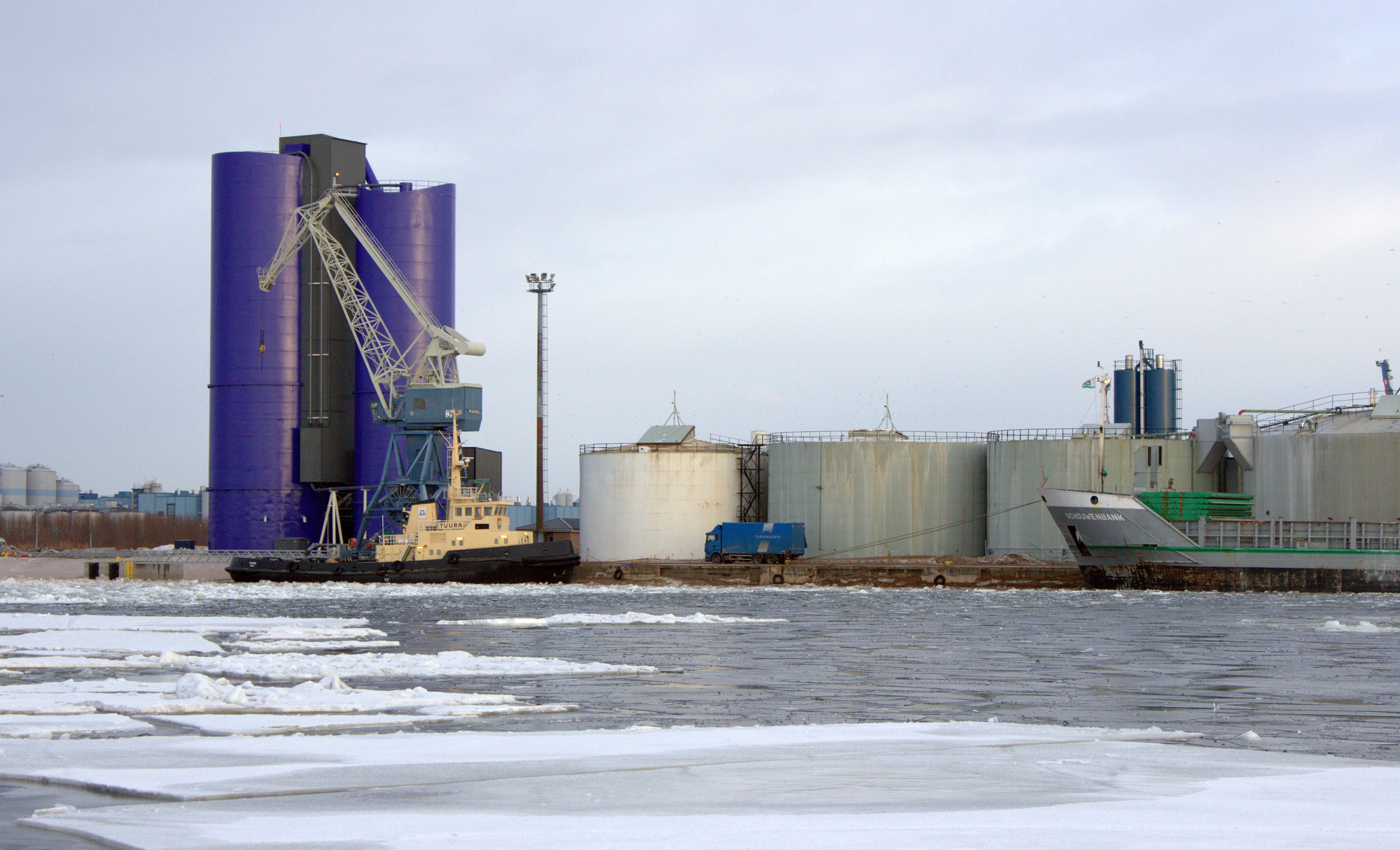 Vihreäsaari harbour in Oulu. Tug boat and harbour ice breaker Tuura on the left.